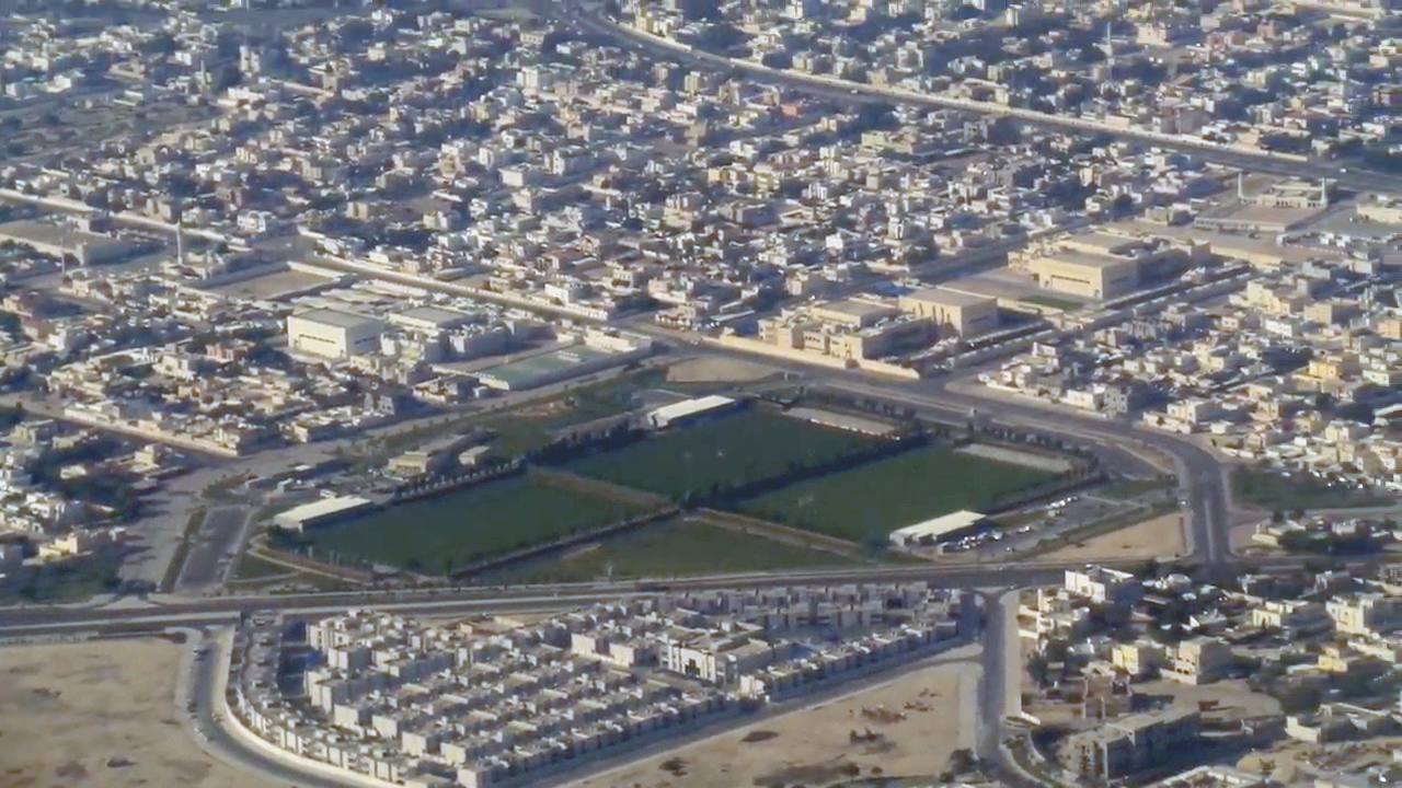 Aerial view of Onaiza 65 and Onaiza 66 in Doha, Qatar.